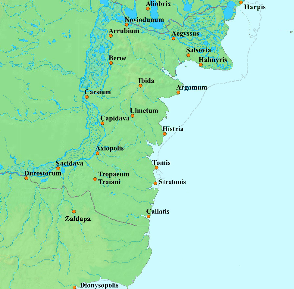 Ancient colonies and cities in Scythia Minor; modern coastline indicated by a dashed line